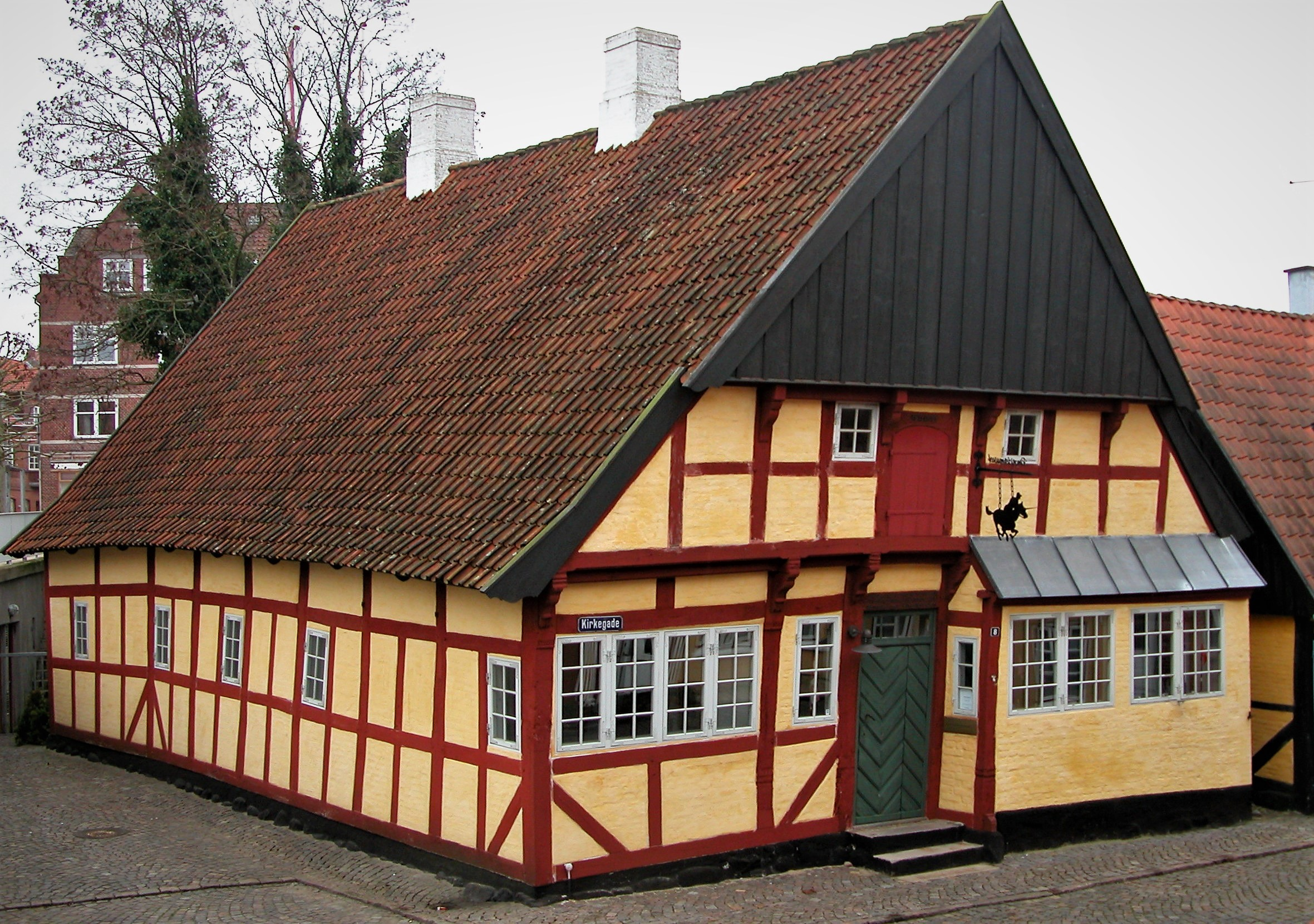 Museum Kirkegade 8, Sønderborg, Denmark